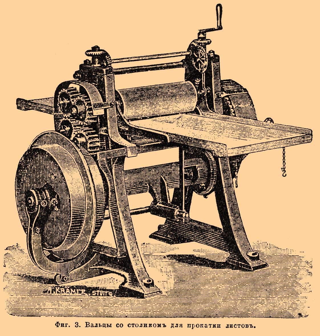 Illustration from Brockhaus and Efron Encyclopedic Dictionary (1890—1907)